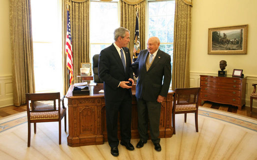 President George W. Bush stands with Truett Cathy, Founder, President and CEO of Chick-fil-A and Founder of the WinShape Foundation, after he presented Mr. Cathy with the Lifetime President's Volunteer Service Award at the White House. White House photo by Joyce N. Boghosian